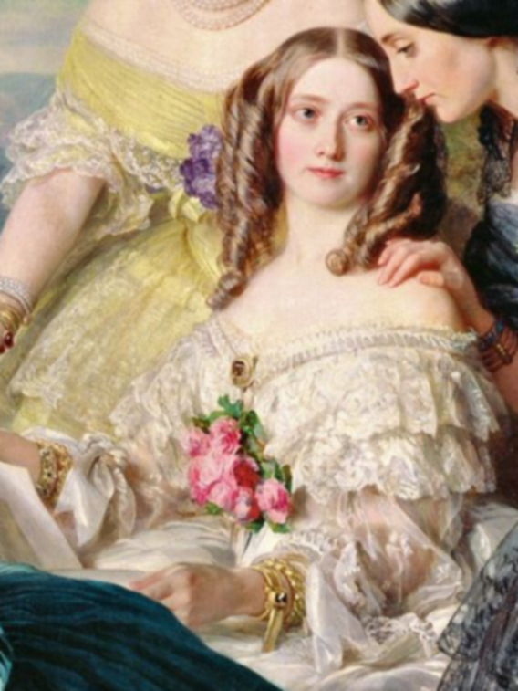 Portrait of Claire Emilie MacDonnel, by Franz Xaver Winterhalter (detail of "The Empress Eugenie Surrounded by her Ladies in Waiting").